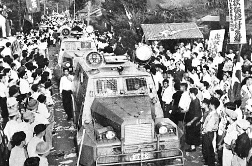 Sunagawa Incident